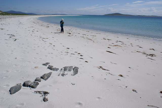 Pabbay Beach Scene. Beinn Shleibhe on Berneray is seen on the right skyline